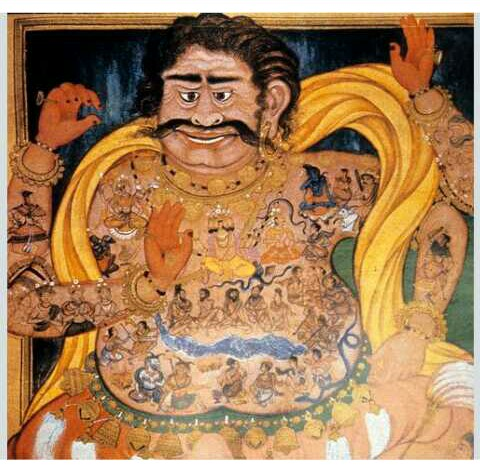 By Basawan & mani